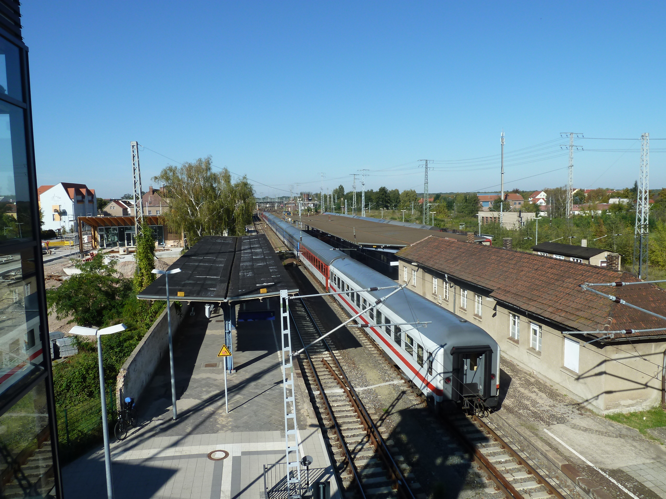 Falkenberg Elster Railway Station, platform 1, 2, 3